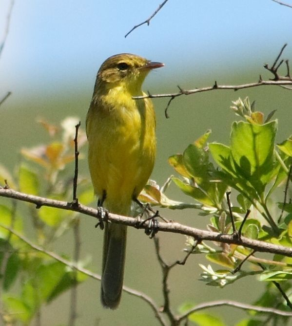 African Yellow Warbler Iduna natalensis, syn. Chloropeta natalensis. Location: Midmar, KwaZulu-Natal, South Africa